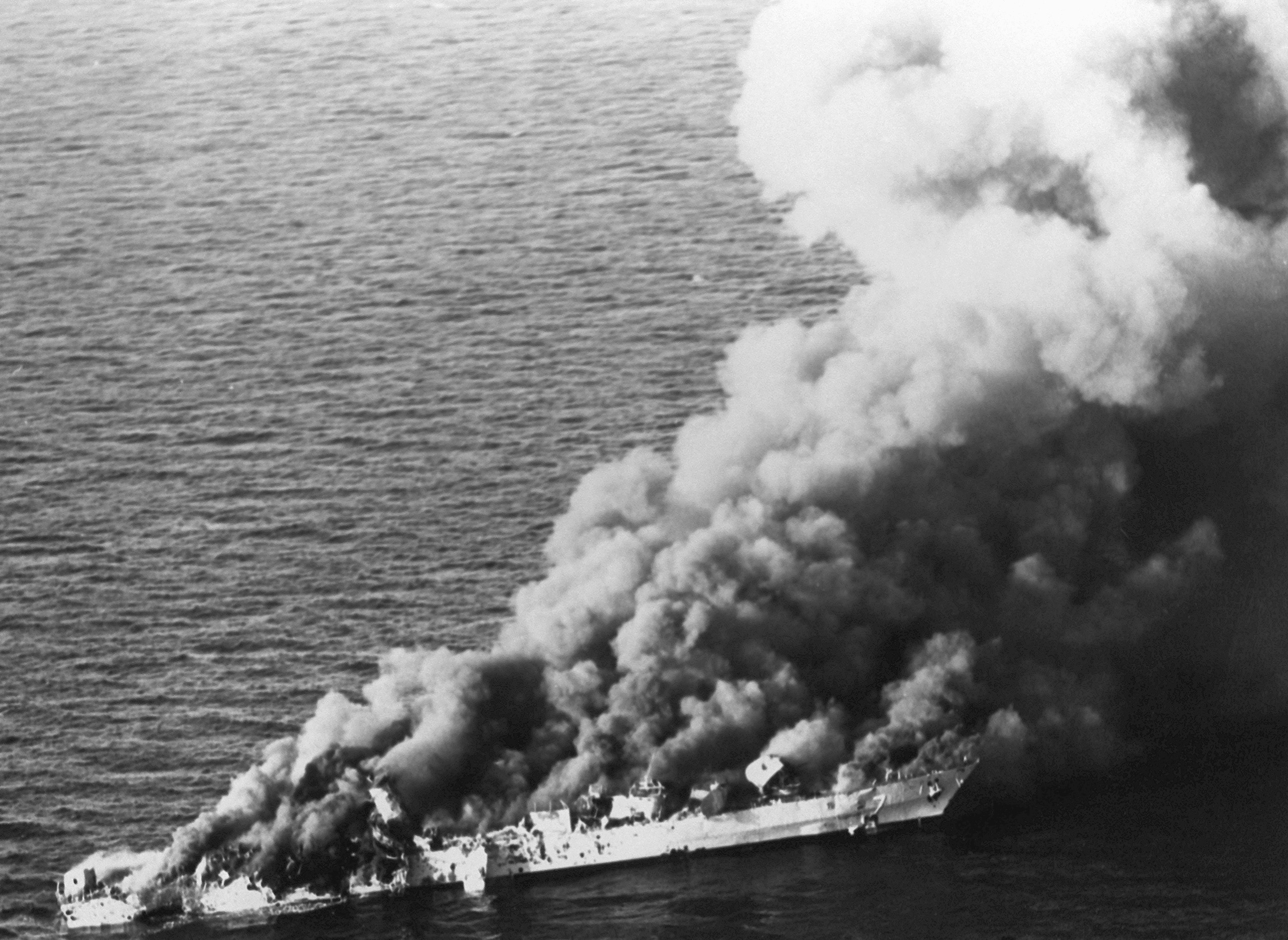 The Iranian frigate IS Sahand (74) burns after being attacked by aircraft of Carrier Air Wing II from the nuclear-powered aircraft carrier USS Enterprise (CVN-65), in retaliation for the mining of the guided missile frigate USS Samuel B. Roberts (FFG-58). The ship was hit by three Harpoon missiles plus cluster bombs.